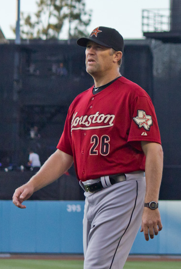 Doug Brocail